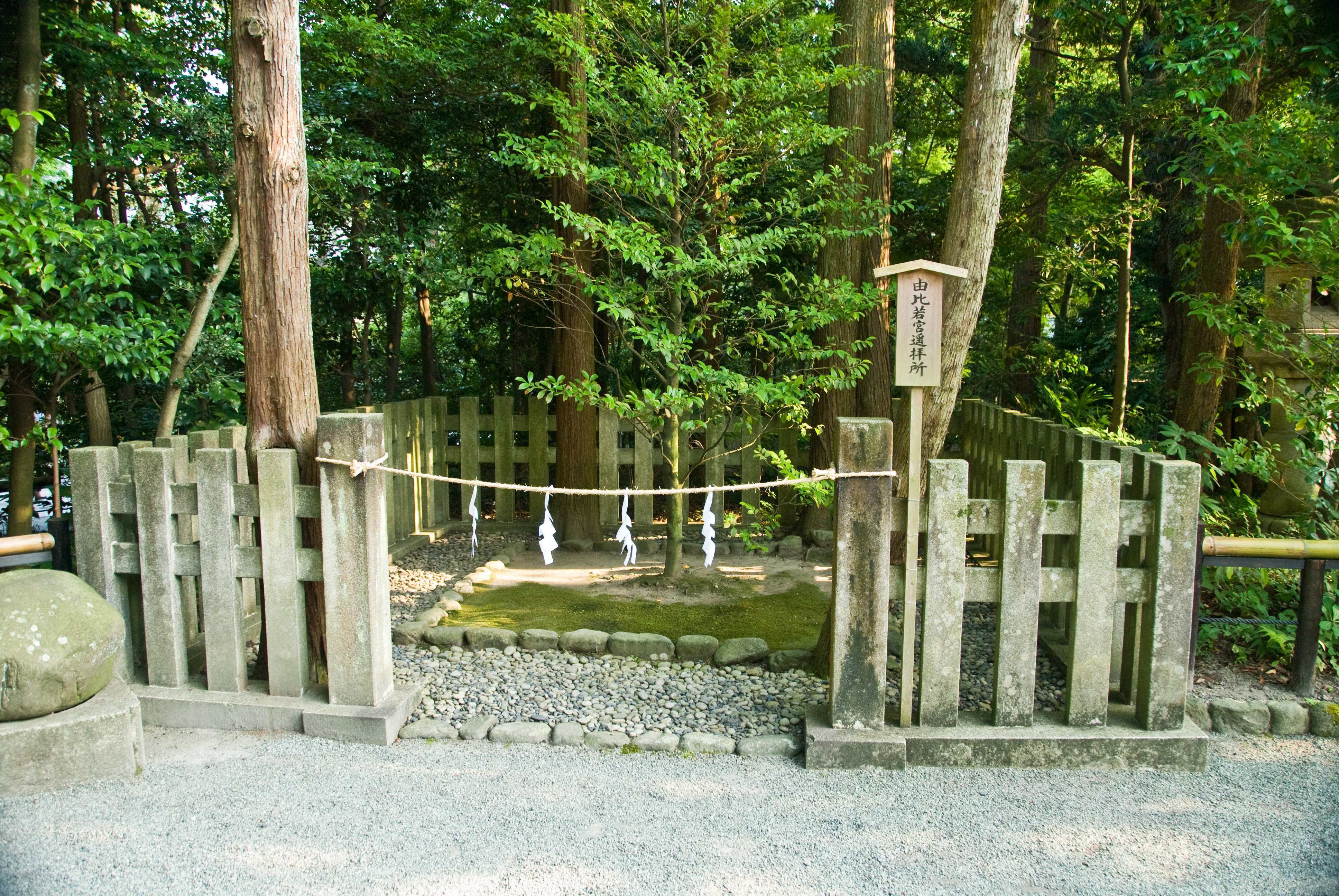 The Yui Wakamiya Yōhaijo (由比若宮遥拝所), literally, the "Yui Wakamiya Pray at a Distance Place" at Tsurugaoka Hachiman-gū. To pray at distant Yui Wakamiya, you just needed to come here.